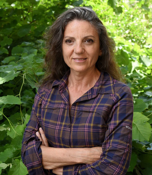 Sandra Myrna Díaz, Argentine ecologist